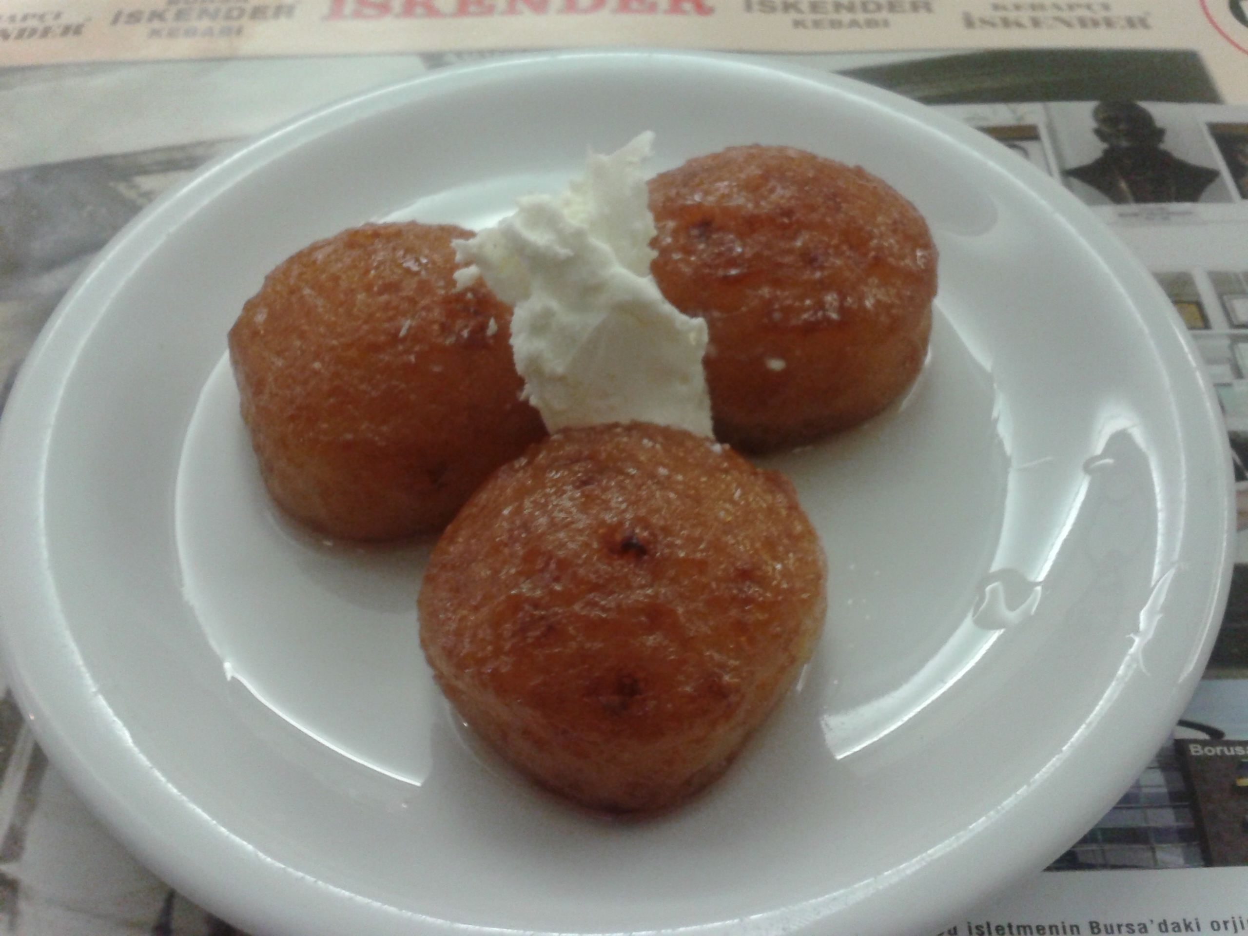 "Kemalpaşa tatlısı" or "Kemal Pasha dessert" takes its name from the Mustafakemalpaşa district of Bursa.